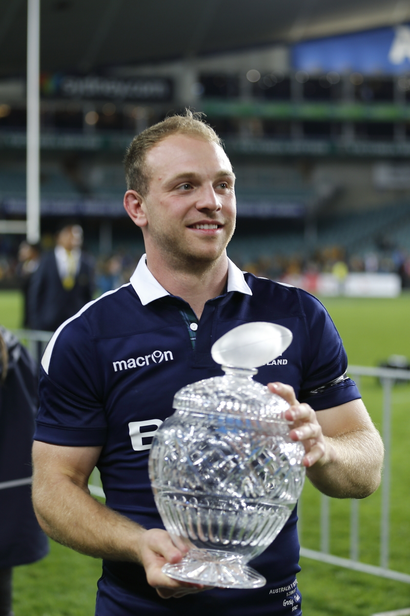 2017.06.17.17.13.31-AUSvSCO-0002 The 2017 mid-year rugby union international, 17 June 2017, Australia vs Scotland at Allianz Stadium, Sydney